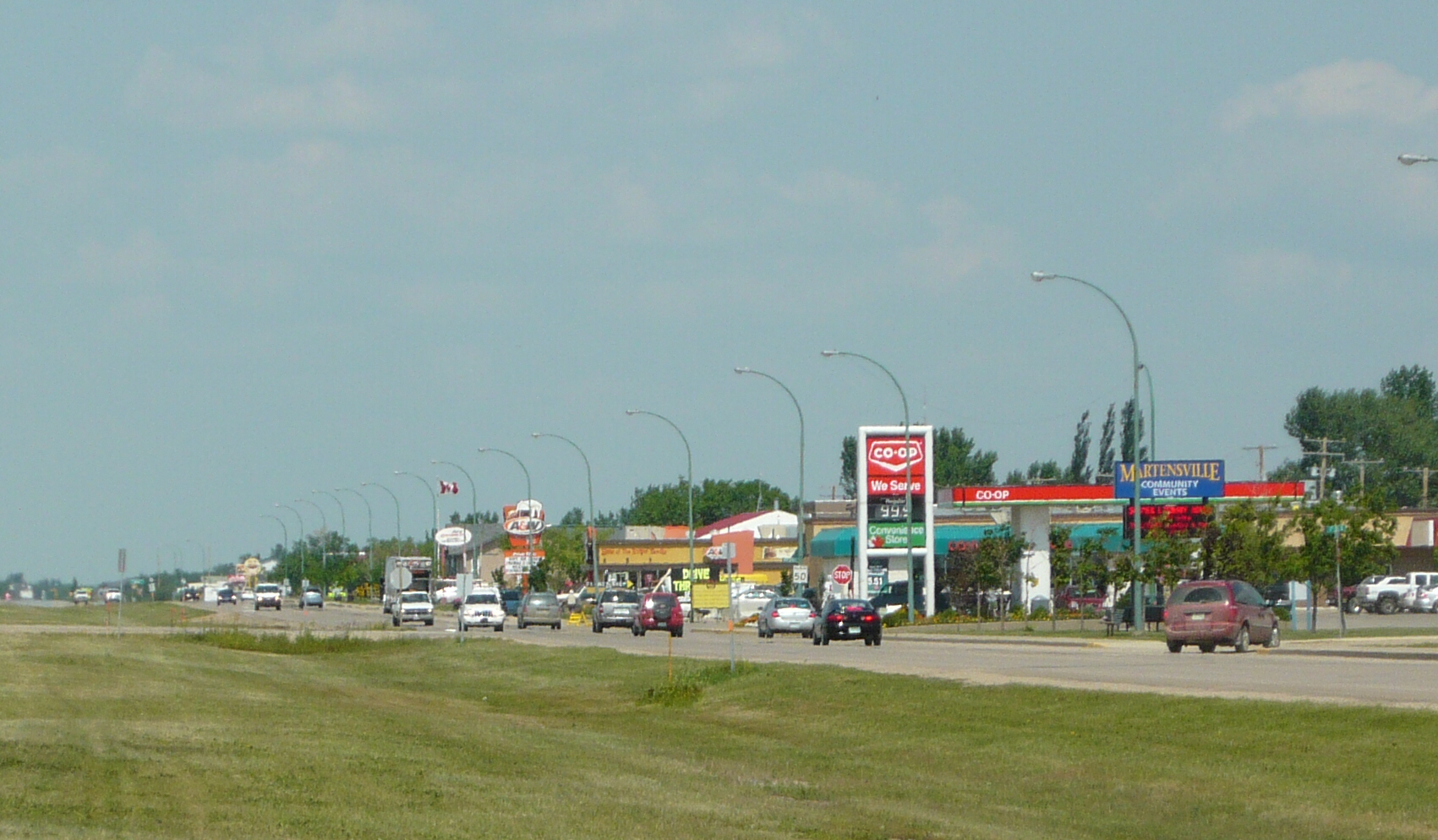 Looking northward on Centennial Drive South (near intersection with 4th Street South) in Martensville, Saskatchewan.